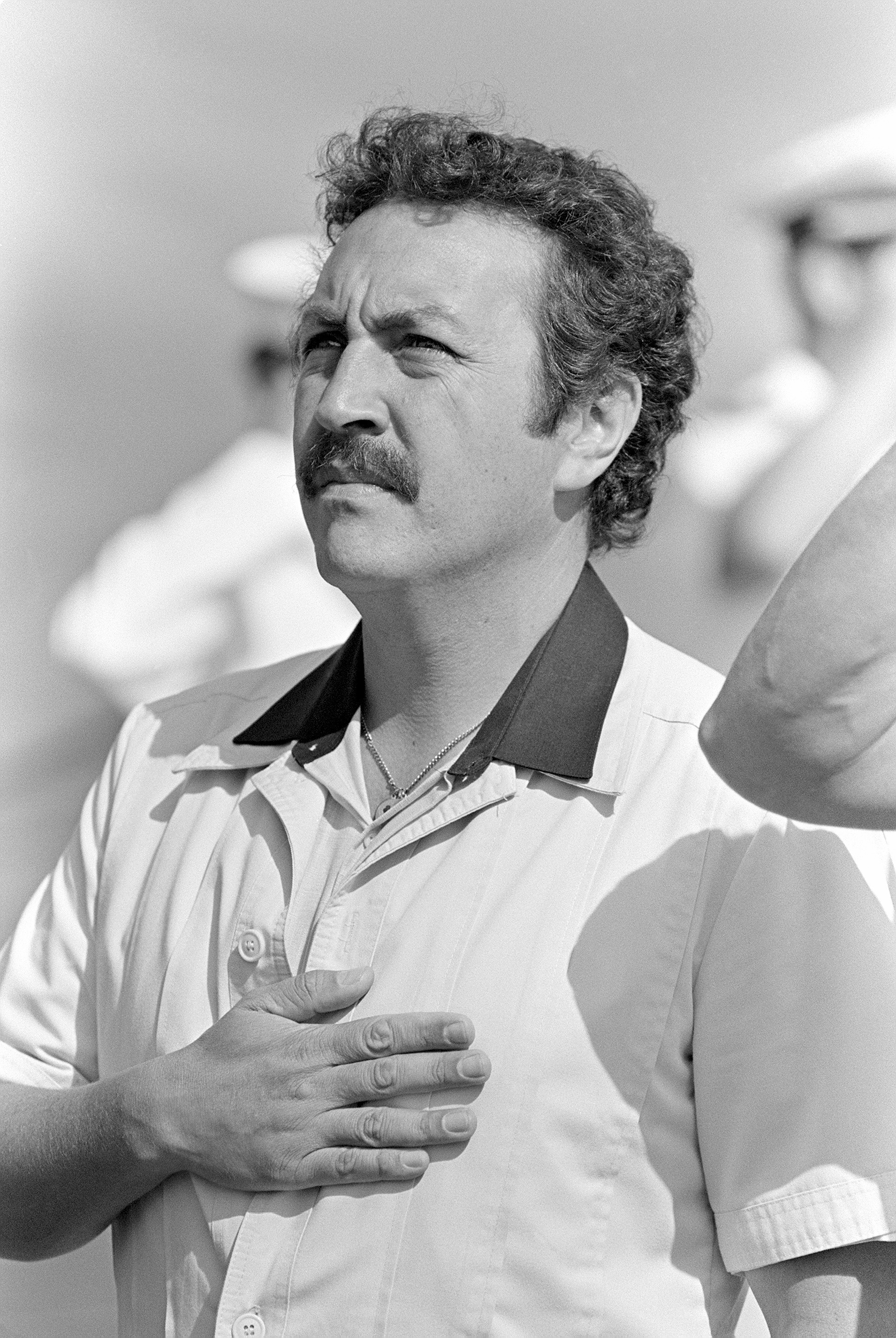 Guatemalan President Vinicio Cerezo honors the flag during a ceremony aboard the battleship USS IOWA (BB 61). VIRIN DN-SN-86-05174